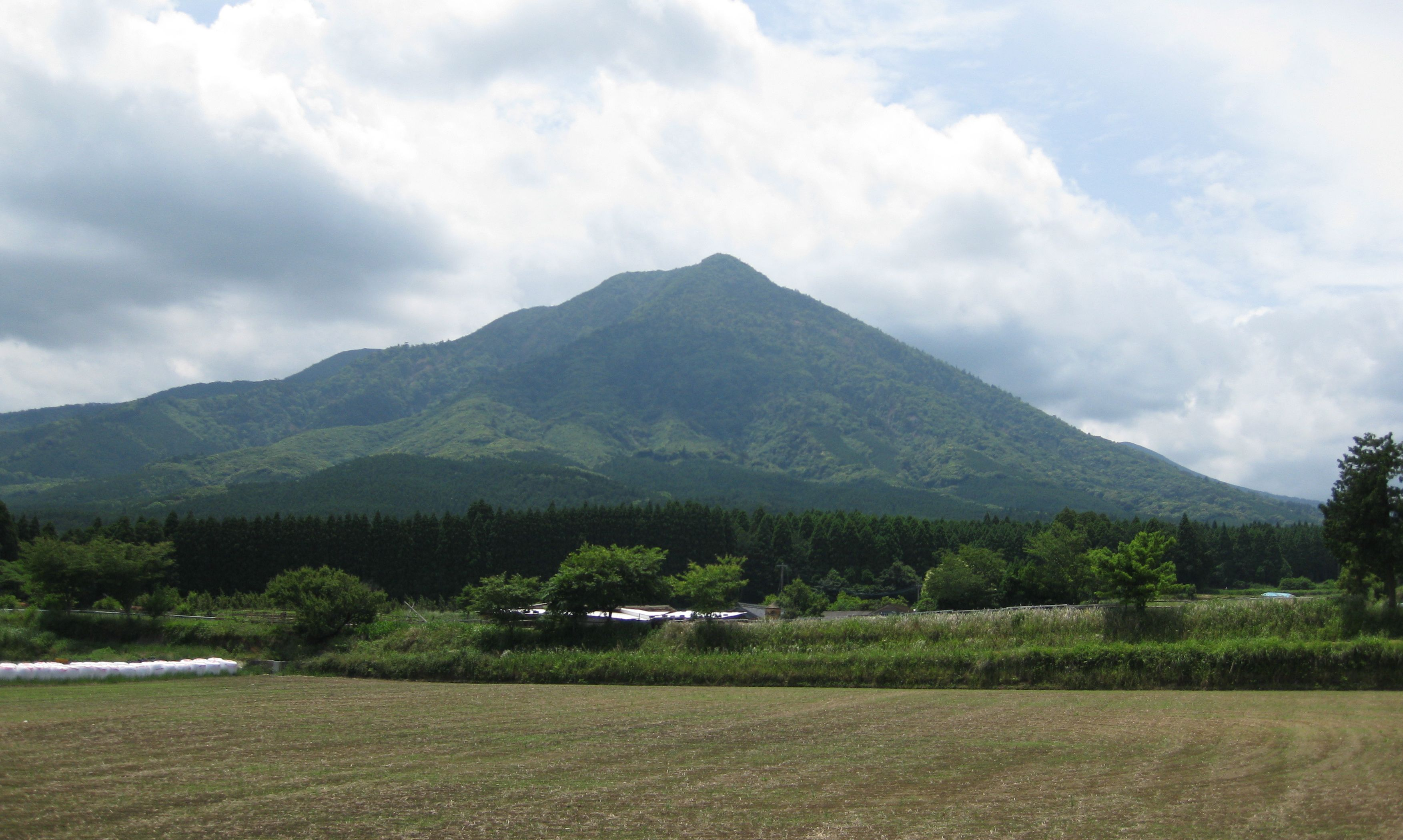 Mt. Hinamoridake (a.k.a. Ikoma-fuji) rises in Miyazaki, Japan